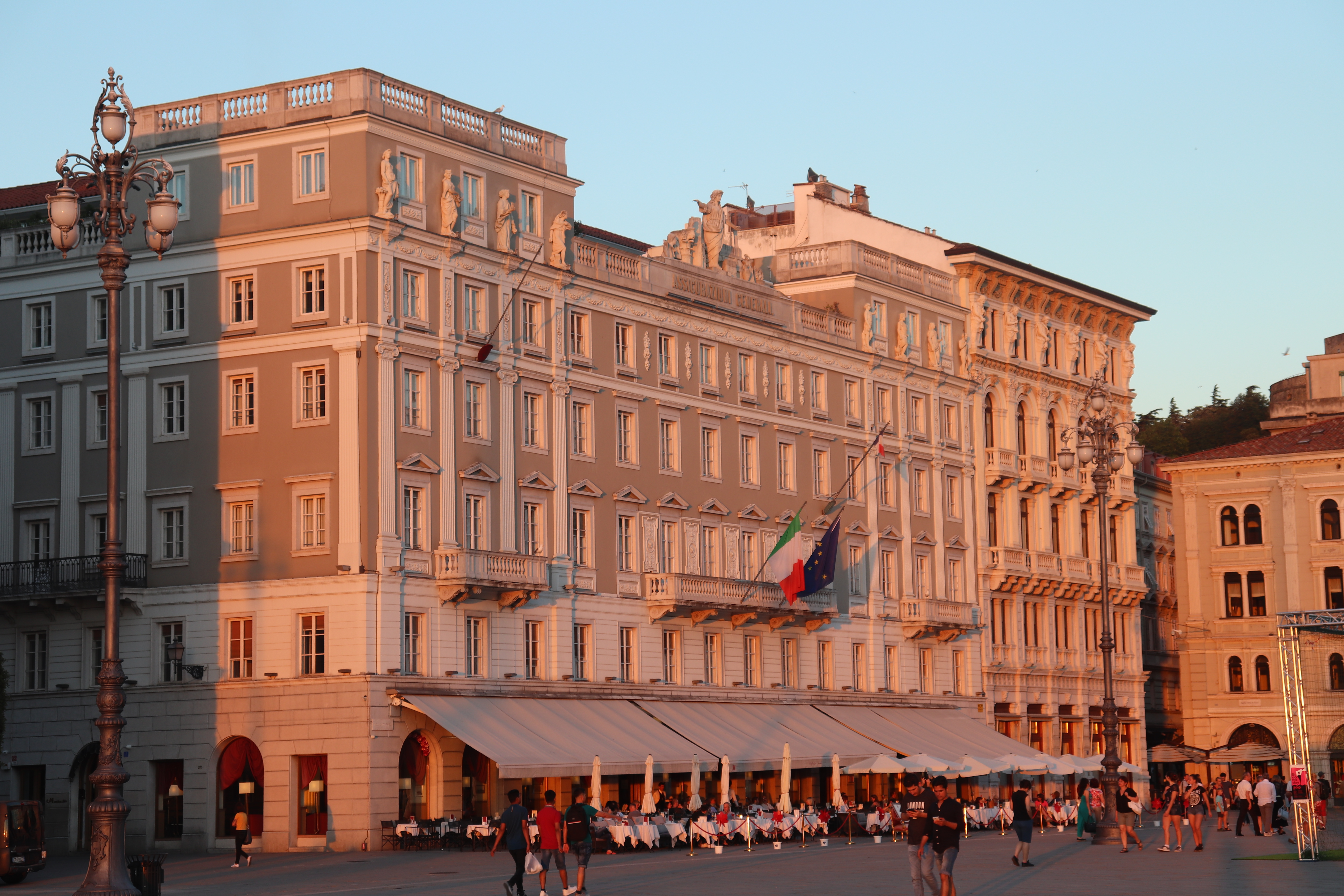 Trieste - Stratti Palace